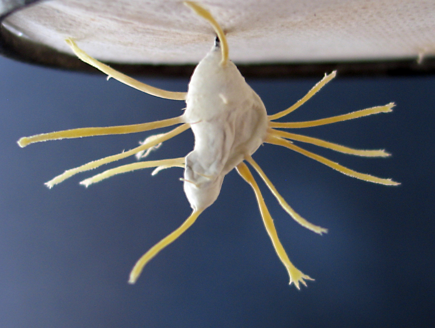 Sinemas of Isaria tenuipes emerging from Hespieriidae pupae (Lepidoptera)